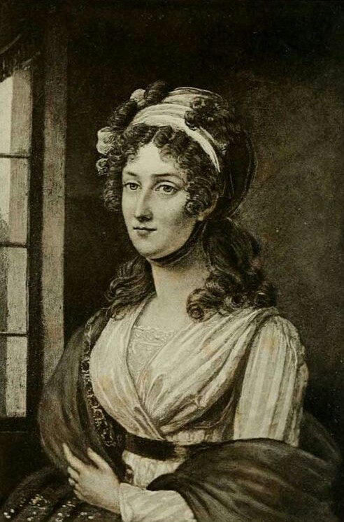 Portrait of Marie-Angélique de Bombelles (1762-1800)